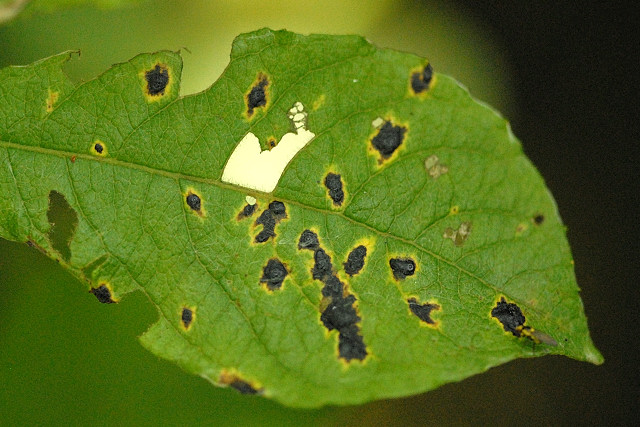 Rhytisma salicinum from Commanster, Belgium. The determination of the species shown in this picture has been verified.